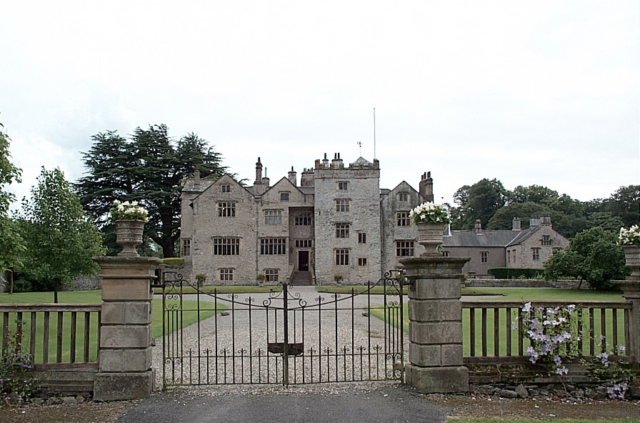 Levens Hall